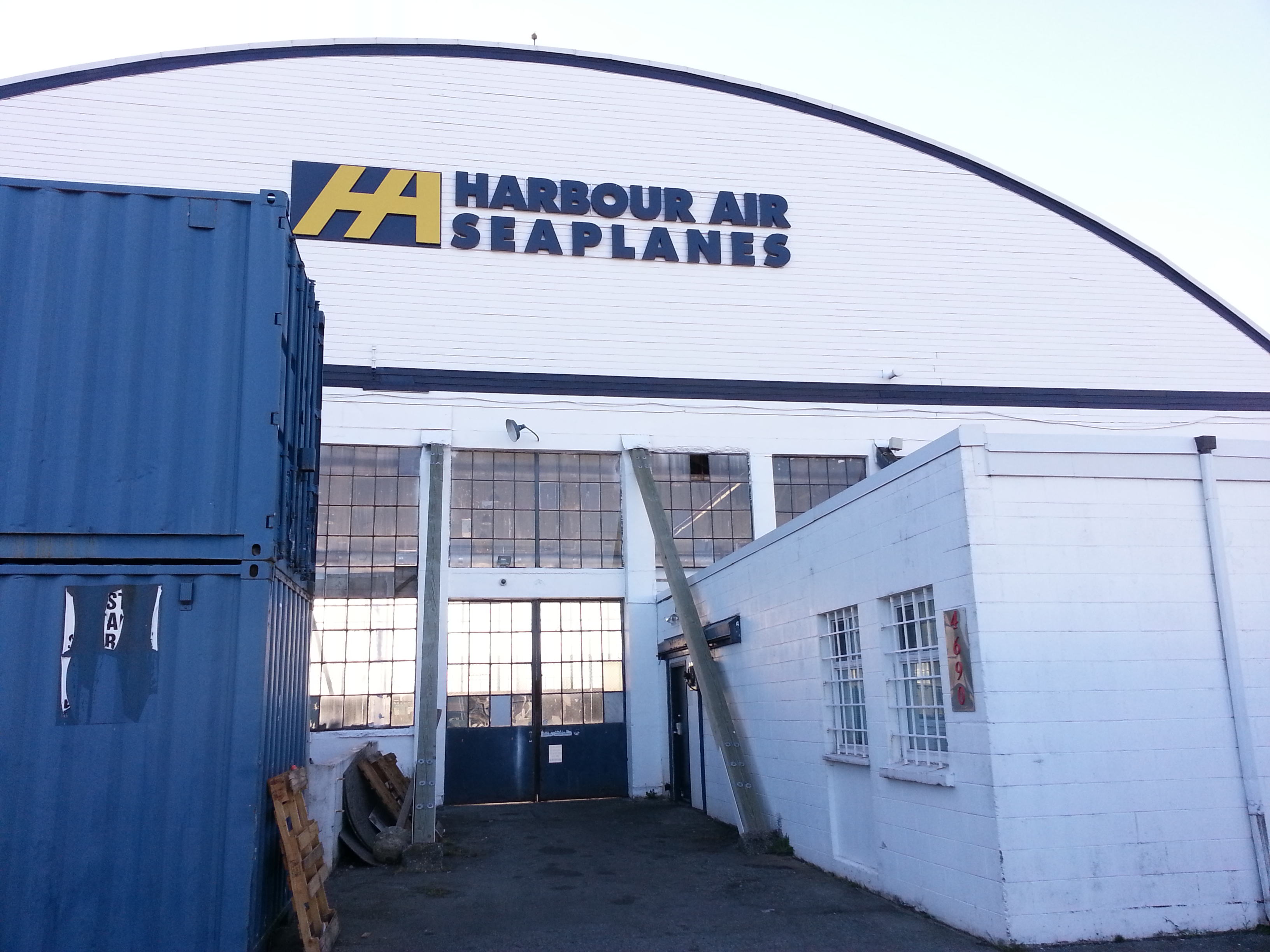 Harbour Air Hangar, Building T-018 at the Vancouver International Airport